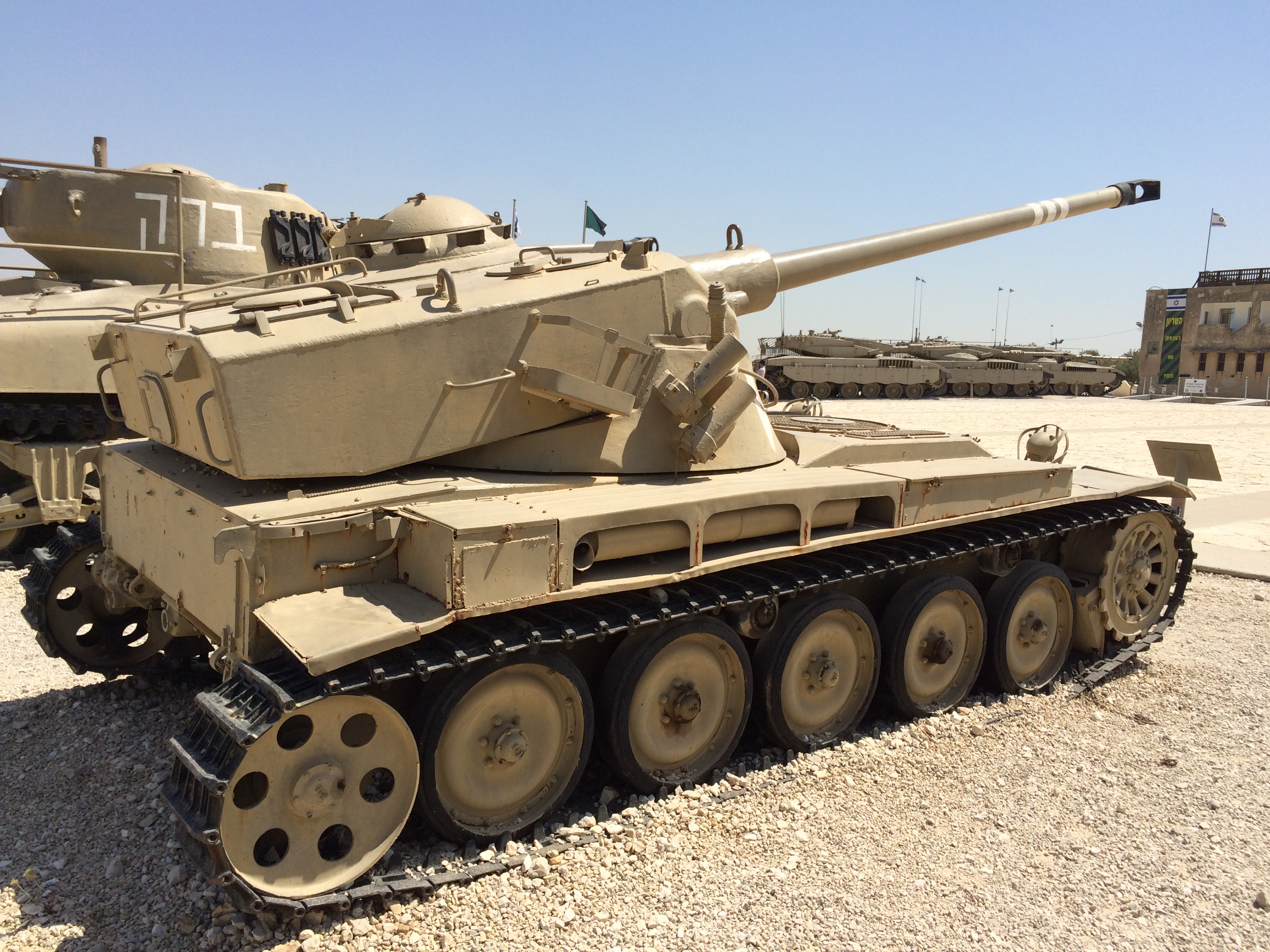 AMX-13 at the Israeli Armoured Corps/Yad la-Shiryon Museum, Latrun, Israel.